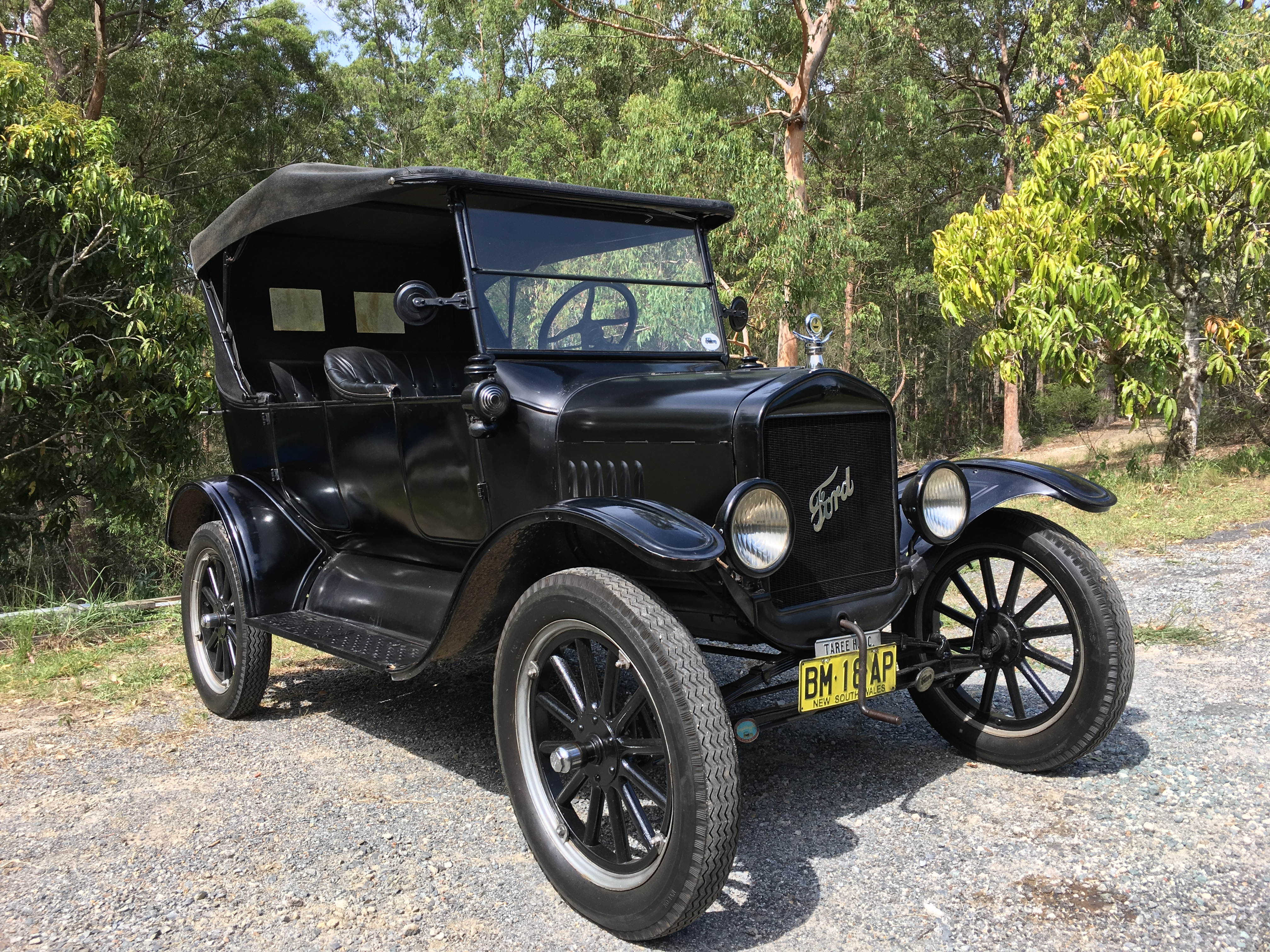 1925 Ford Model T touring, built at Henry Ford’s Highland Park Plant in Dearborn, Michigan. This example now resides in Australia, owned by the founder of